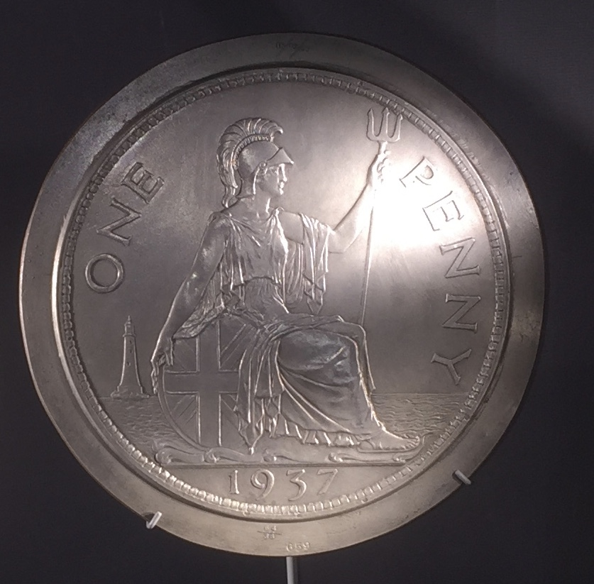 Plaster model for reverse of British penny, 1937.